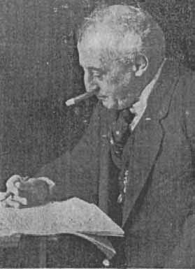 The conductor Gustave Slaopoffski (1862-1951) in about 1920